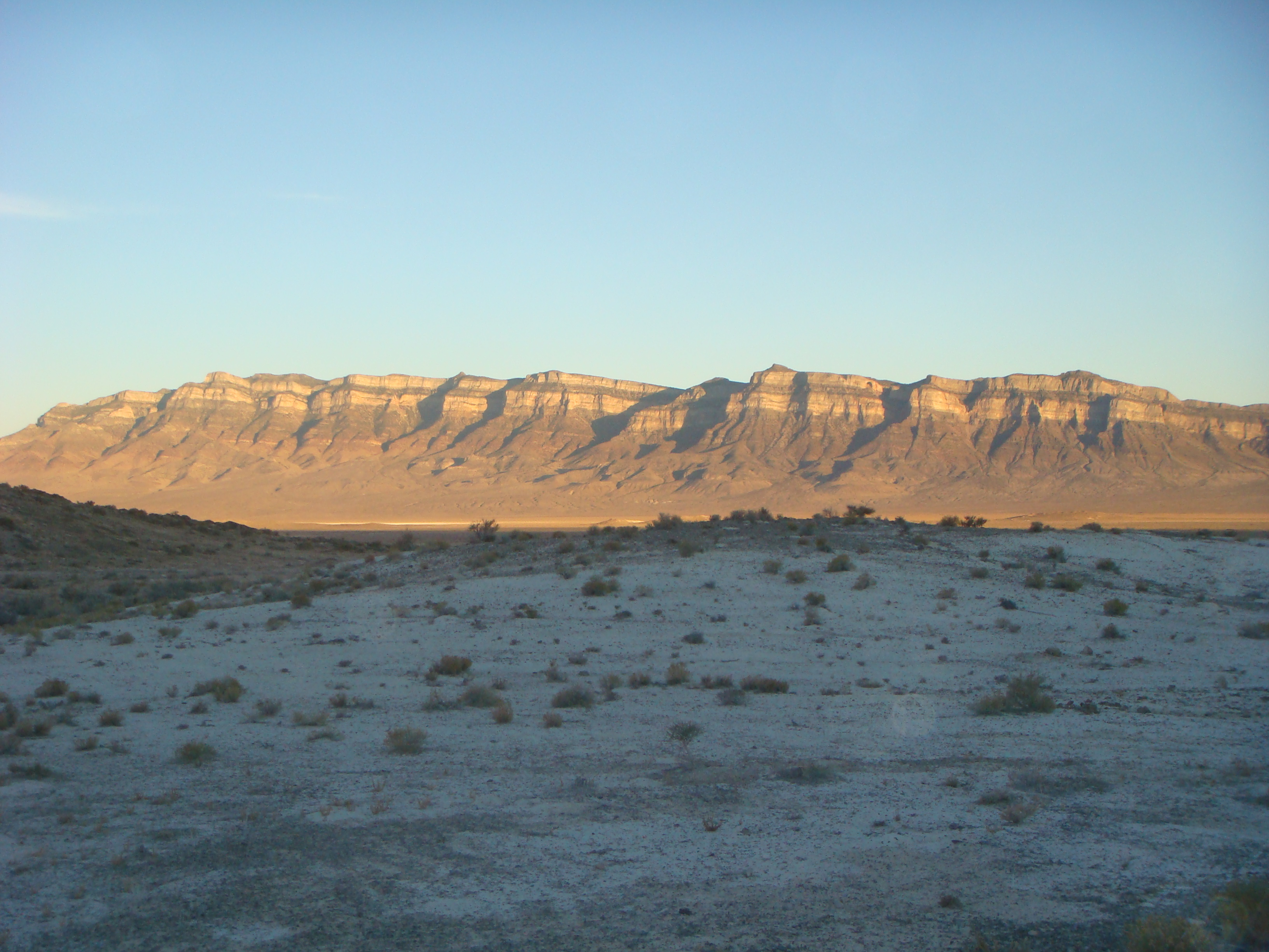 Stratigraphy of the northern em:House Range at sunset, overlooking Tule Valley.